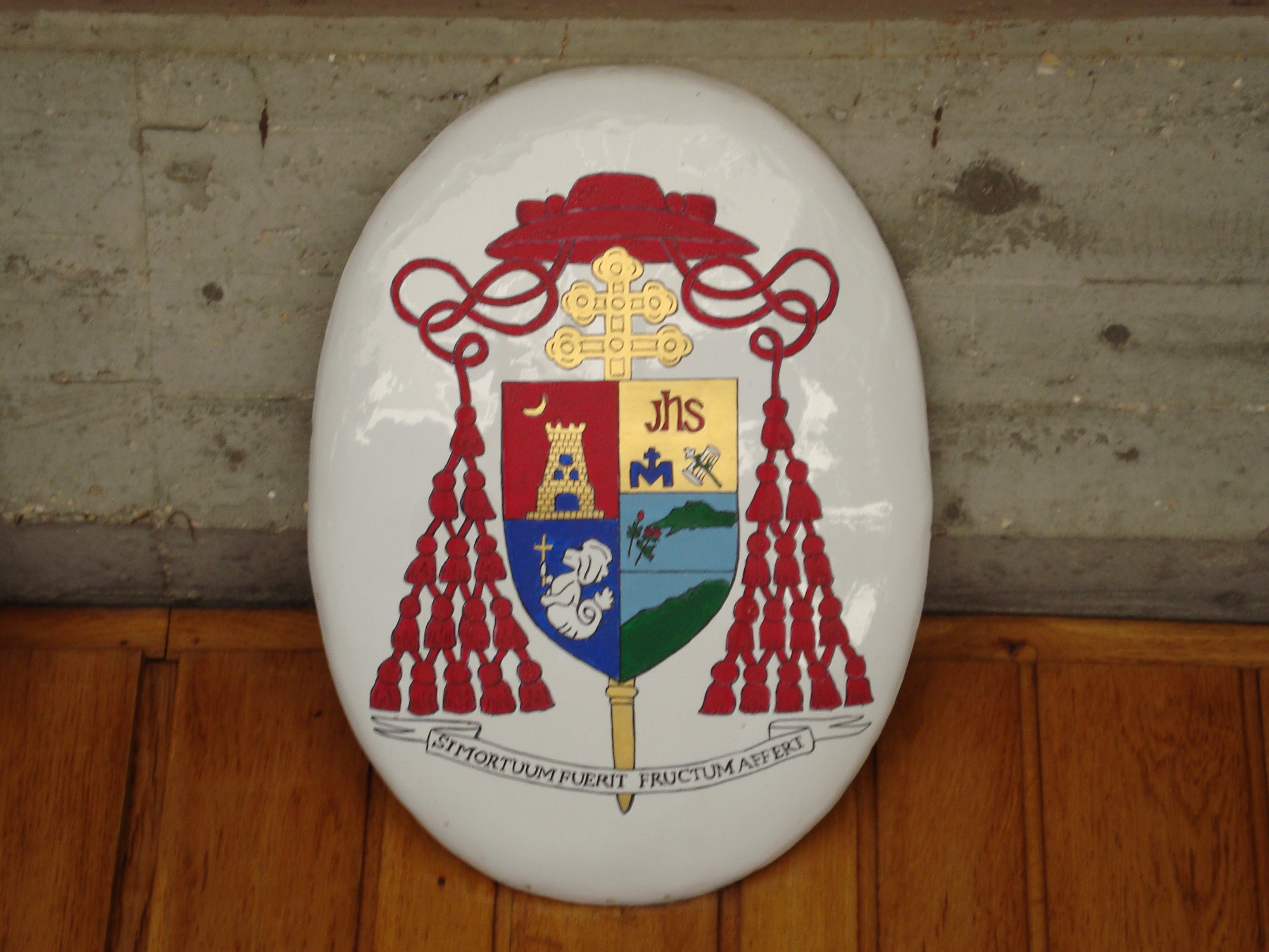 Cardinalice title of cardinal Gaudencio Rosales